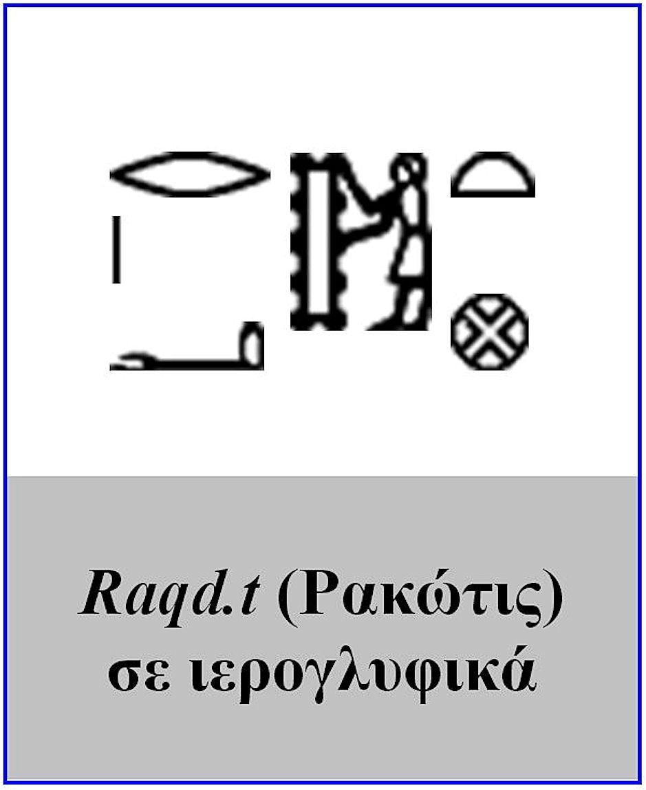 Rhakotis in hieroglyphs